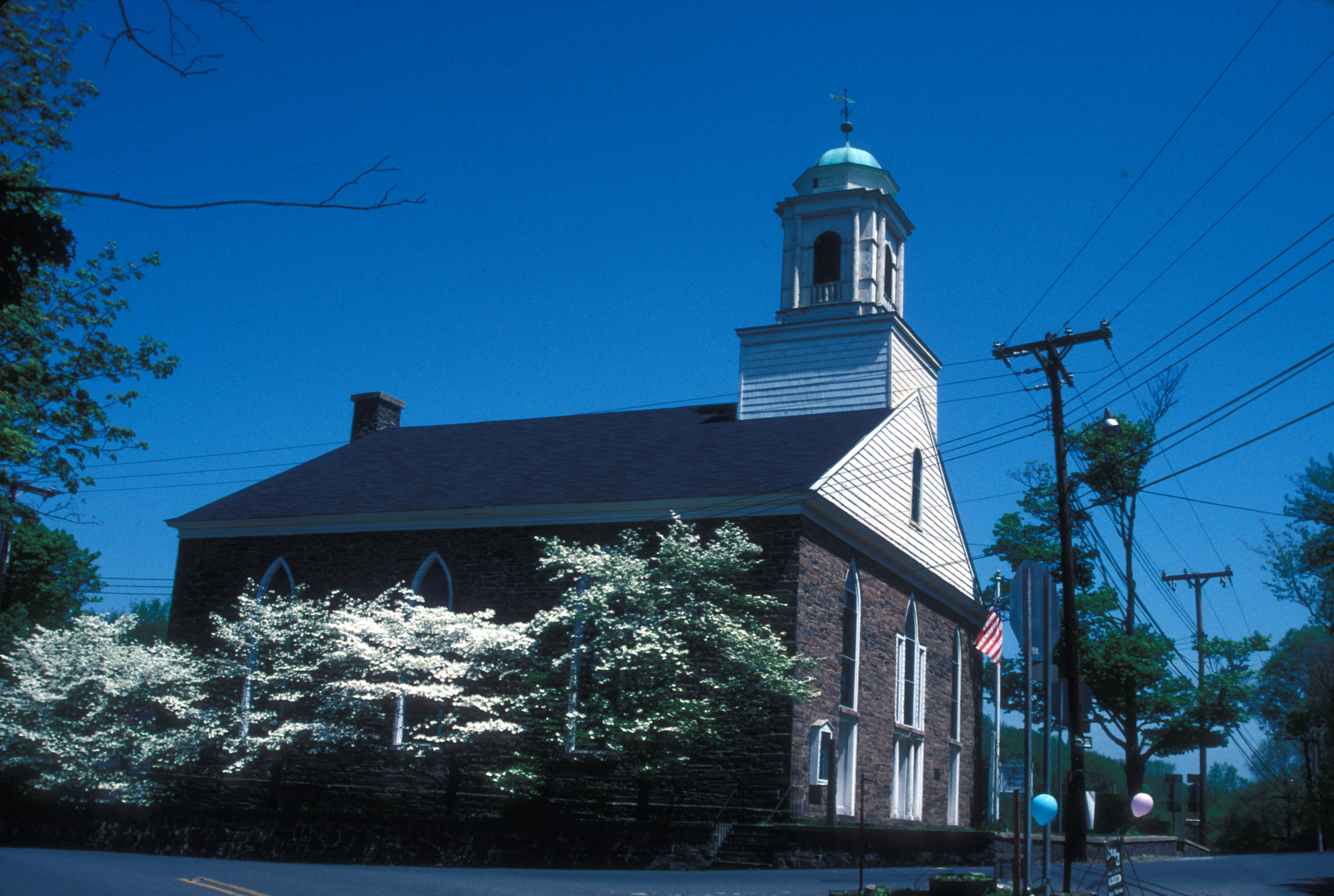 DUTCH REFORMED CHURCH; 1759-1772 OLDEST CHURCH IN THE AREA AND INCLUDED IN THE DISTRICT ALONG AMWELL ROAD